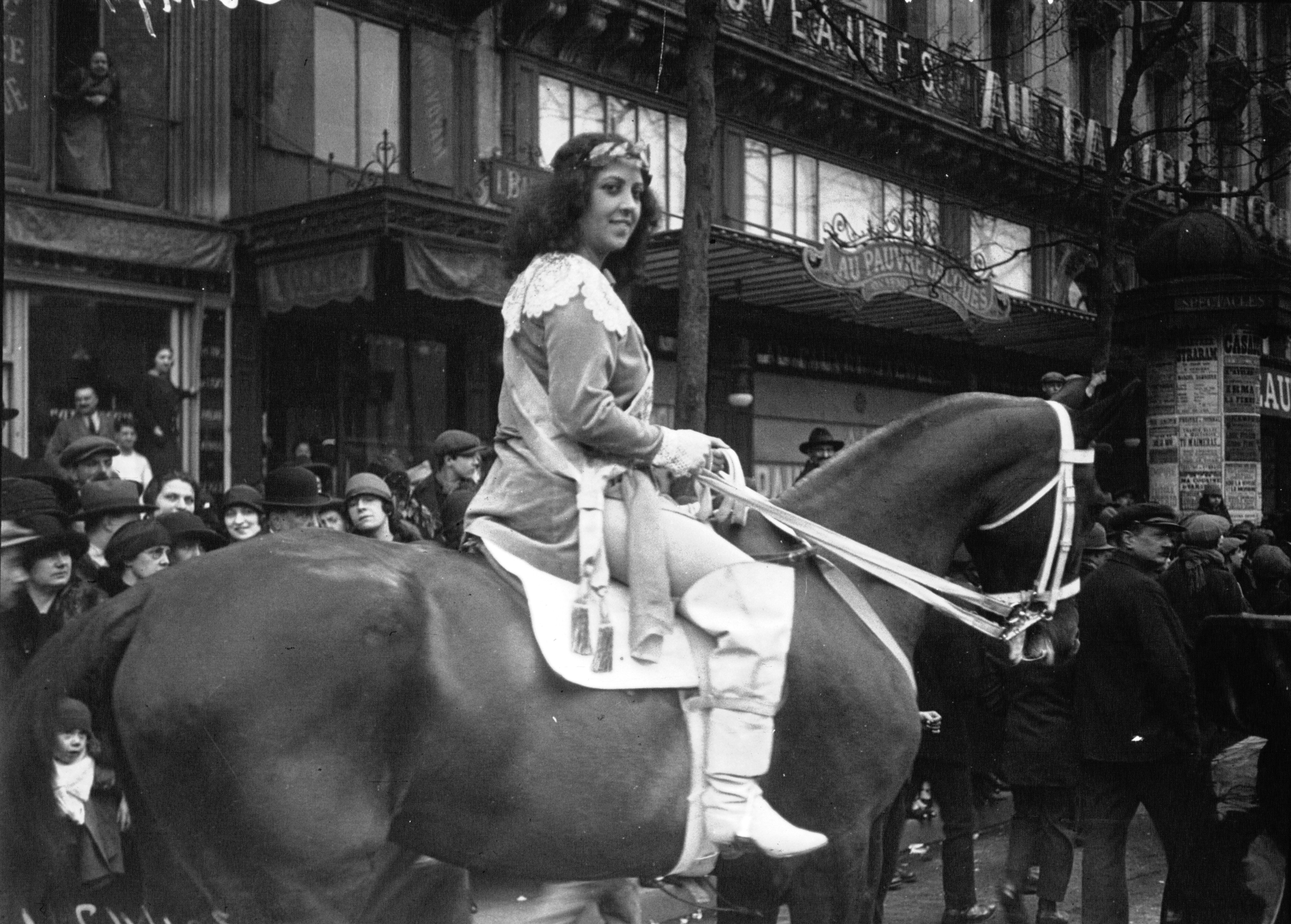 French actress Musidora (1889-1957) riding a mare at the Paris Carnival of 1926, on the third Thursday of Lent, after being elected Movie Queen of the City of Paris.